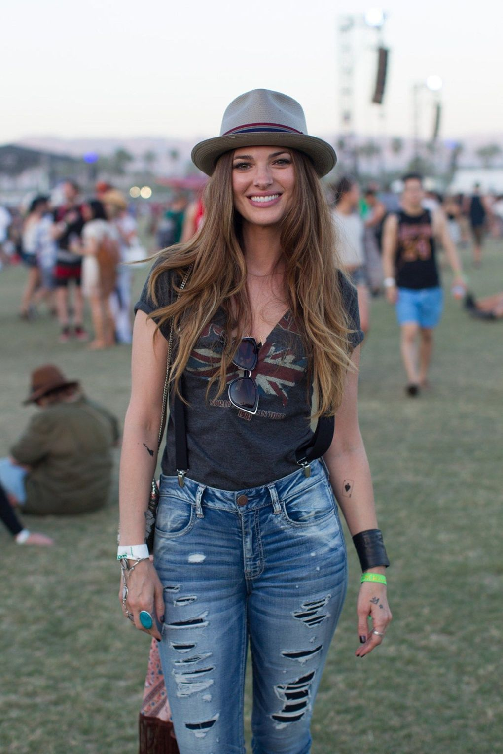 Aria Pullman at Coachella Festival 2015